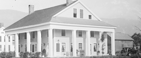 Ye Olde Tavern in the early 1900's.